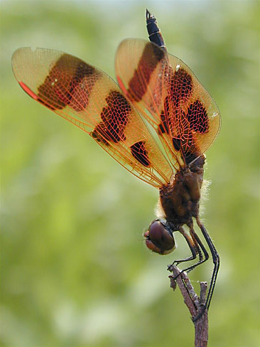 Halloween Pennant (Celithemis eponina) in the obelisk position. Taken at Hyland Park Reserve, Bloomington, Minnesota.